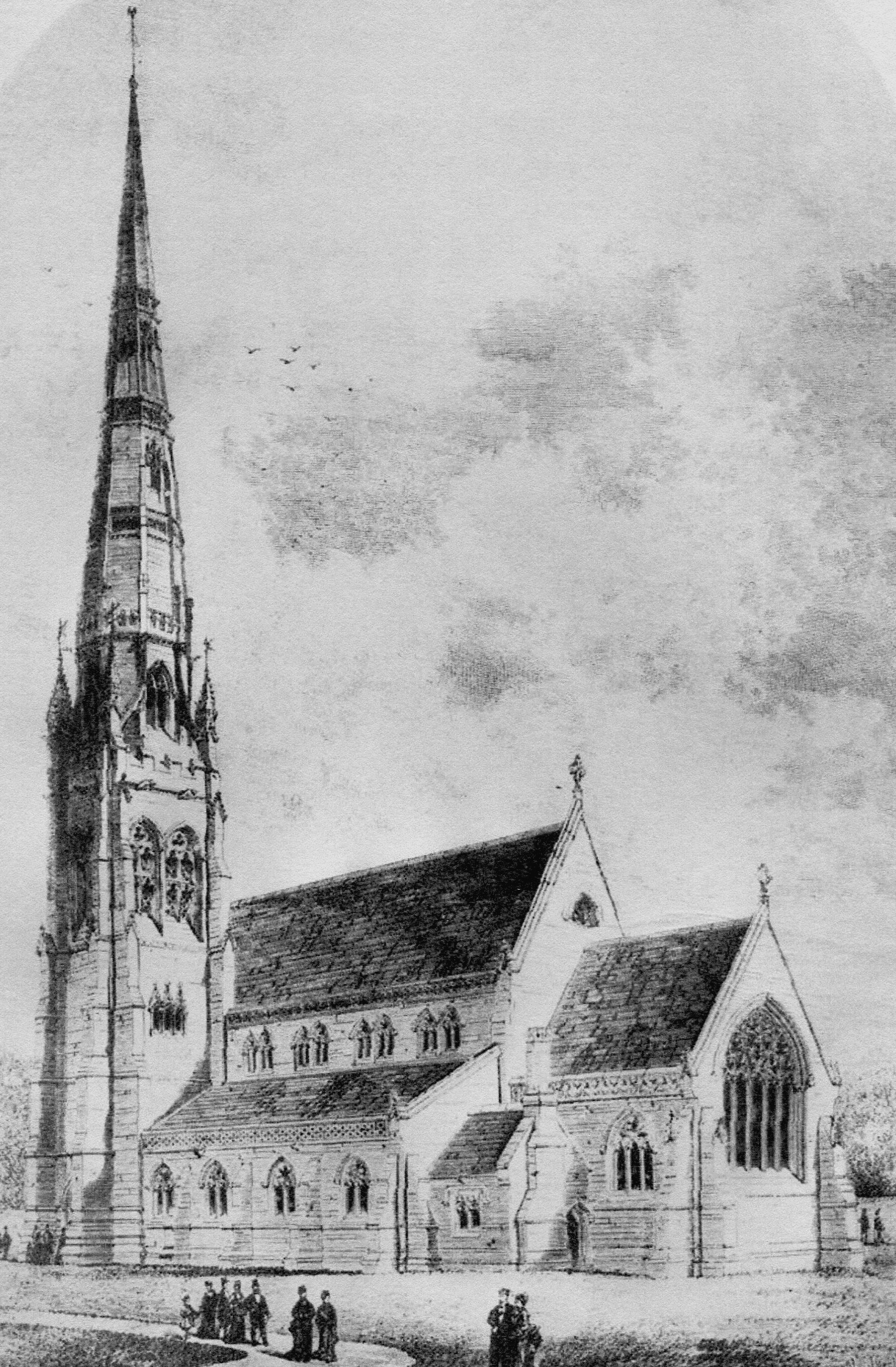 Sketch of of Holy Trinity Church, Rusholme, Manchester, published in The Builder in 1845